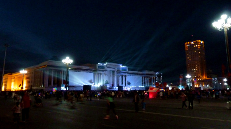 Chingisiin talbaid party, laser show 2014.